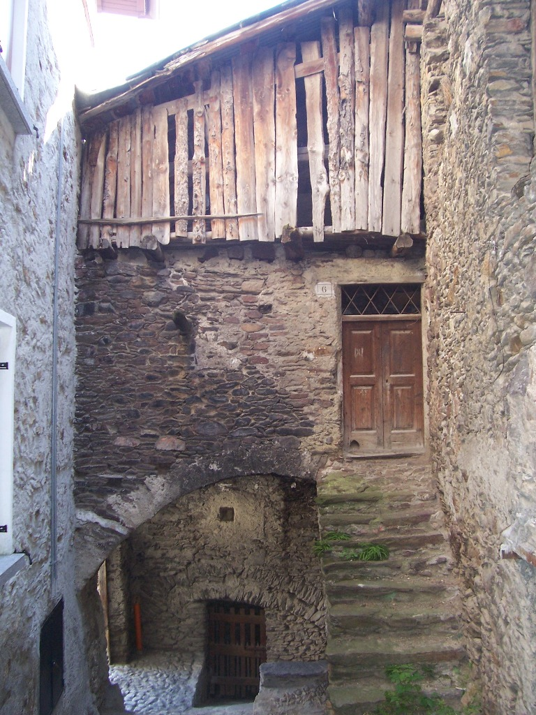 House. Vione, Val Camonica, Italy.